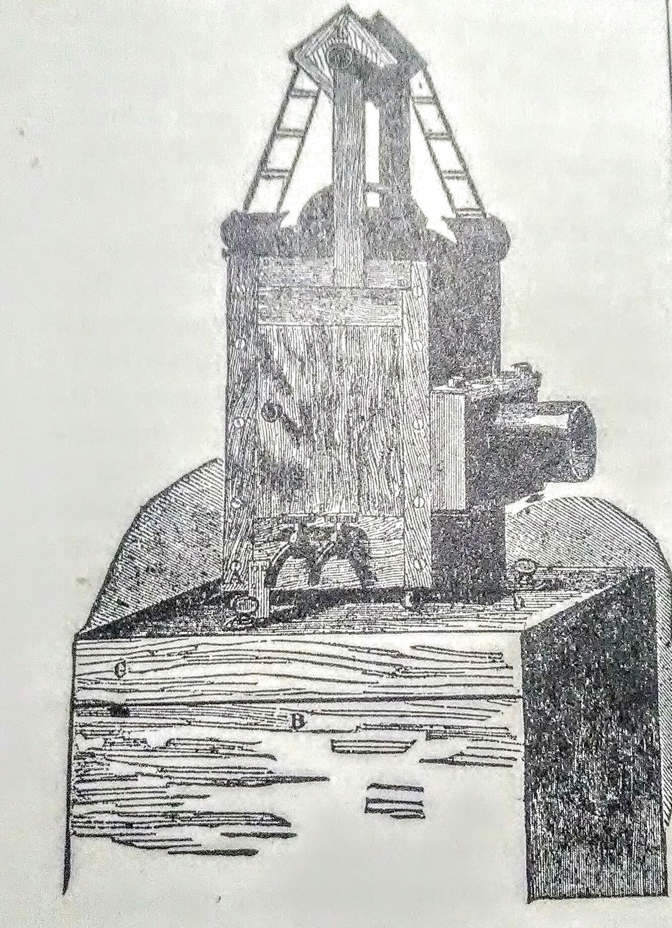 Continuous-Slide Lantern. Precursor to the slide projectioner.